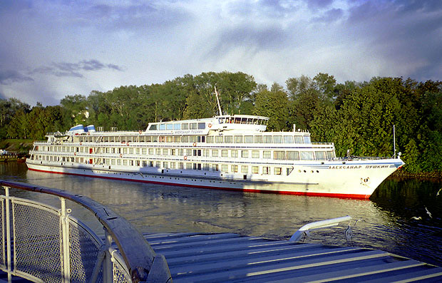 Aleksandr Pushkin (ship, 1974) Uglich 2000